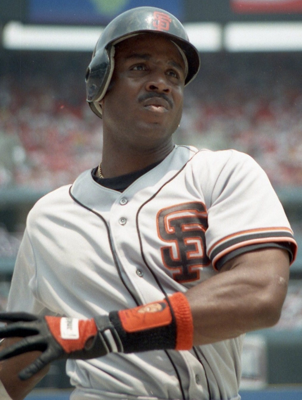 Barry Bonds on deck in 1993.